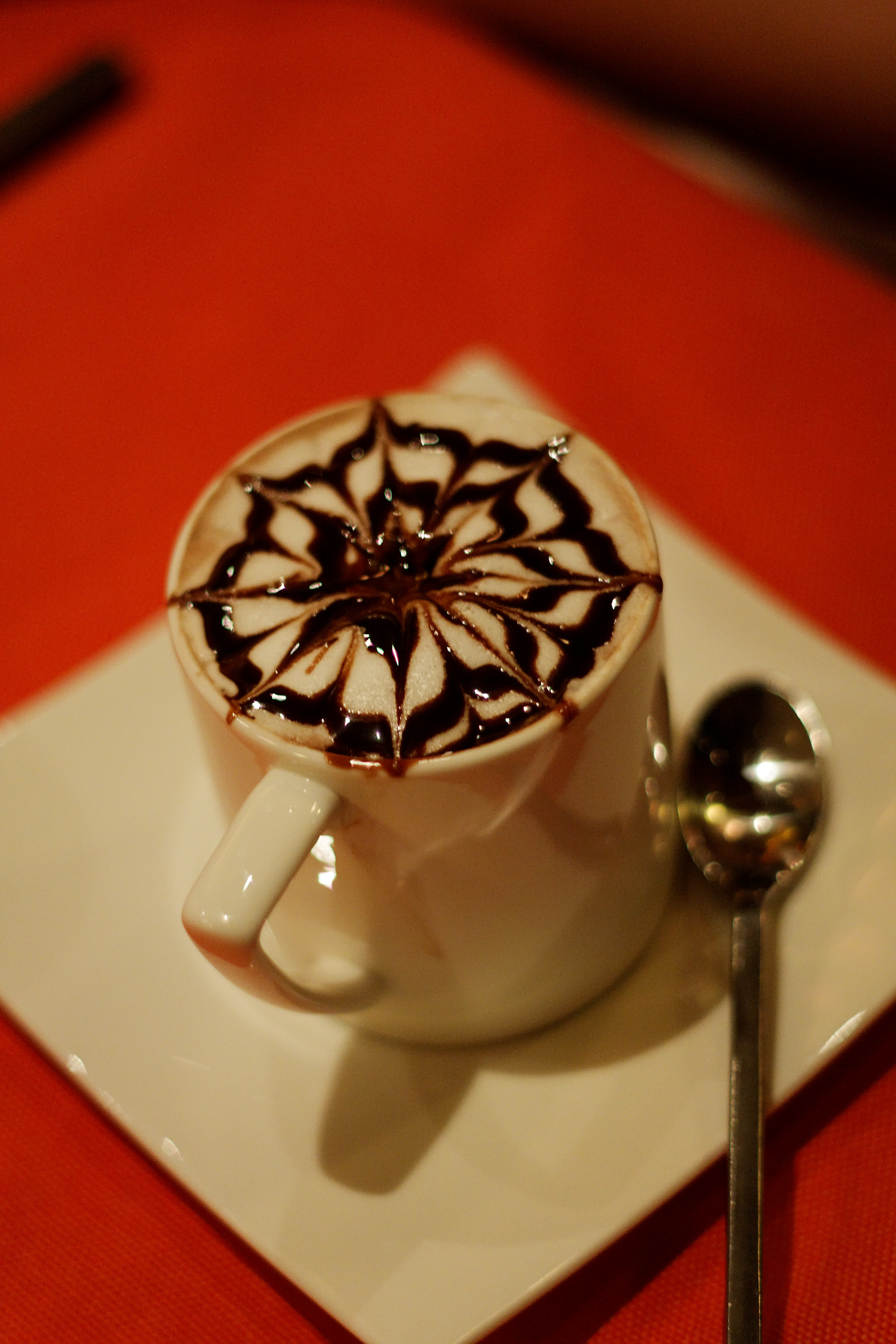 Hot chocolate at Zest Restaurant